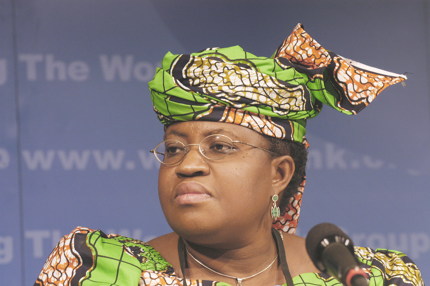 Ngozi Okonjo-Iweala (Finance Minister of Nigeria, 2003-2006; Managing Director of the World Bank, December 2007-present [as of May 2010]), at the 2004 Spring Meetings of the International Monetary Fund and the World Bank Group.